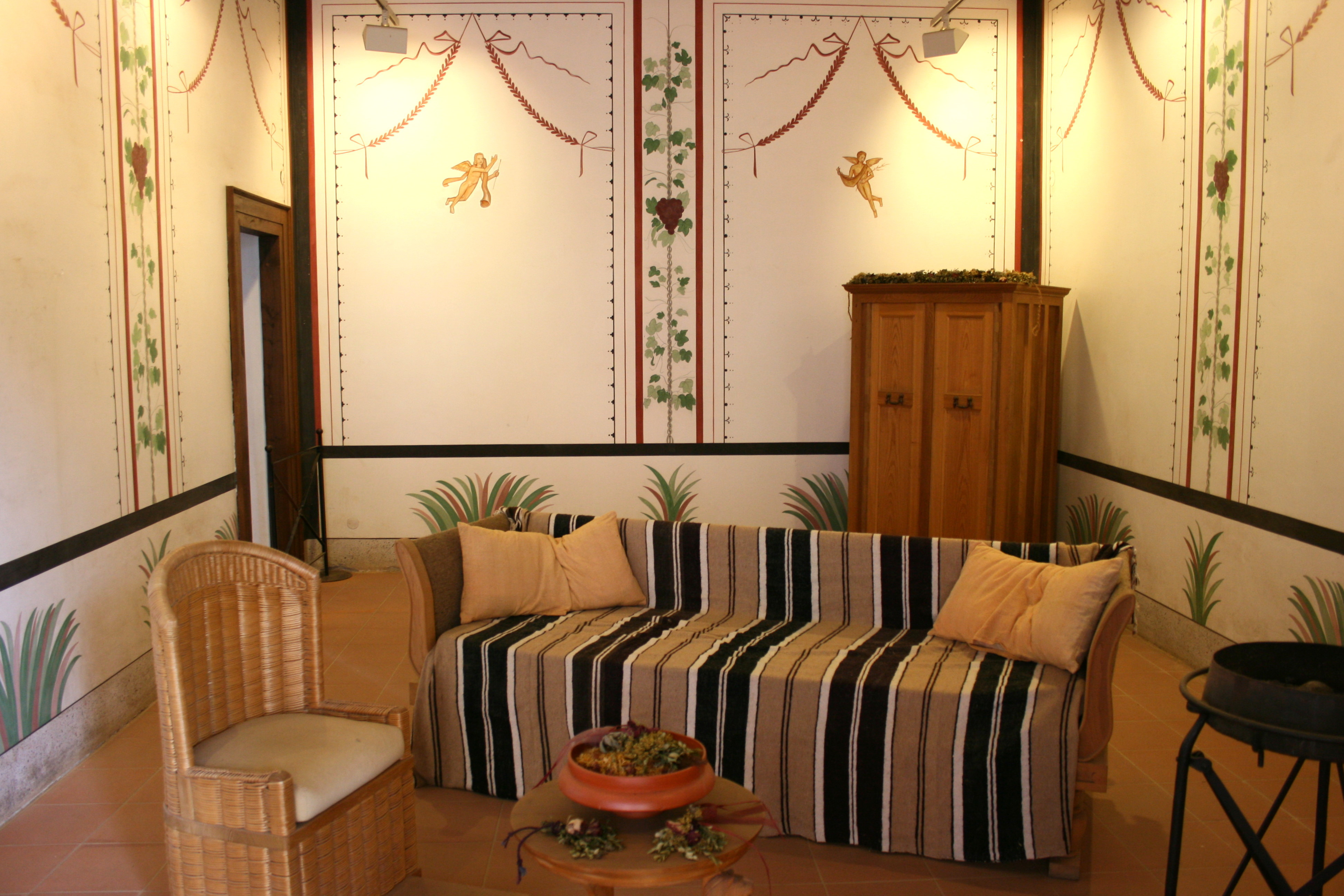 Reconstructed Roman hostel in the APX